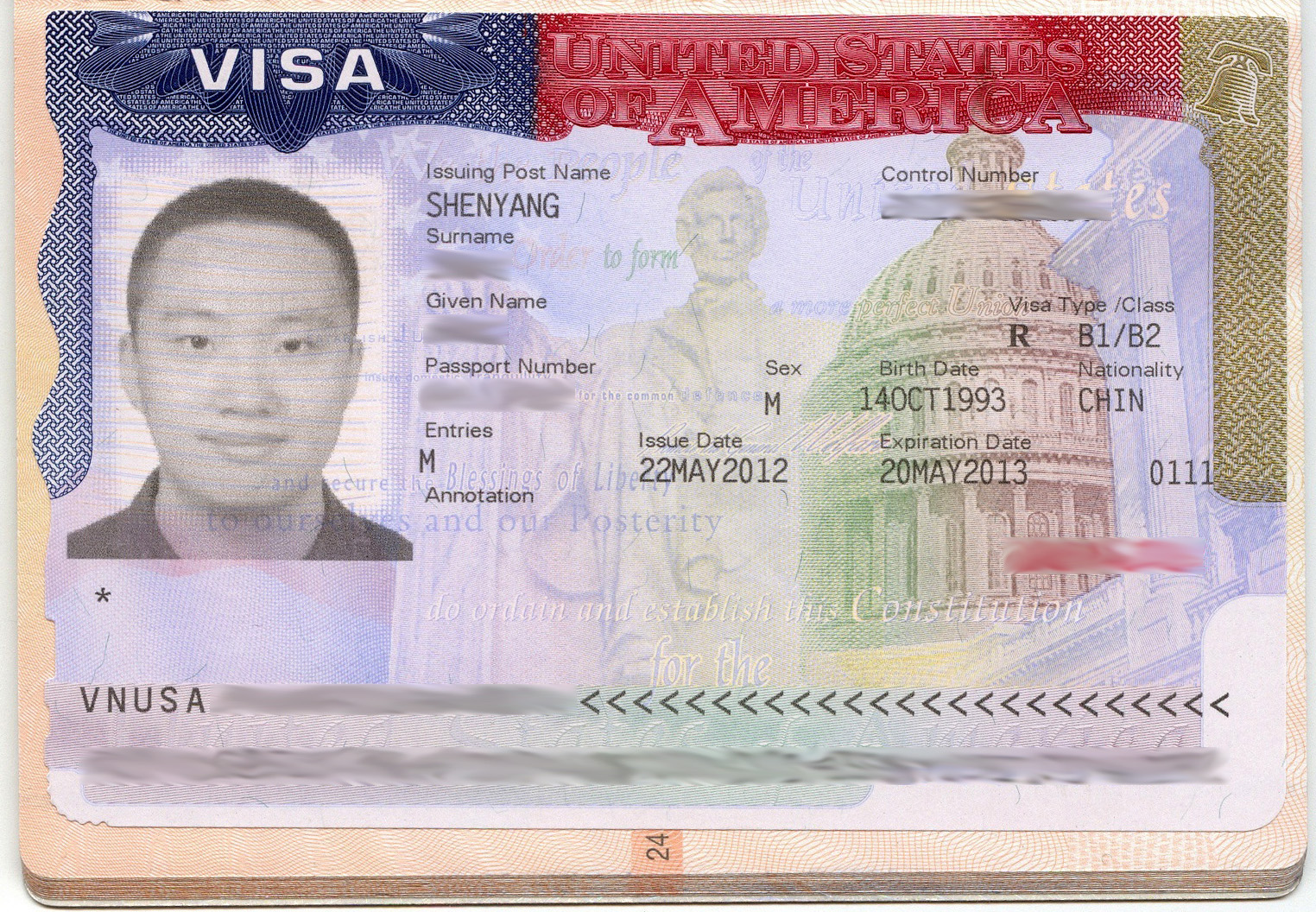 United States tourist visa for multiple entry issued by Consulate General of the United States, Shenyang in 2012.